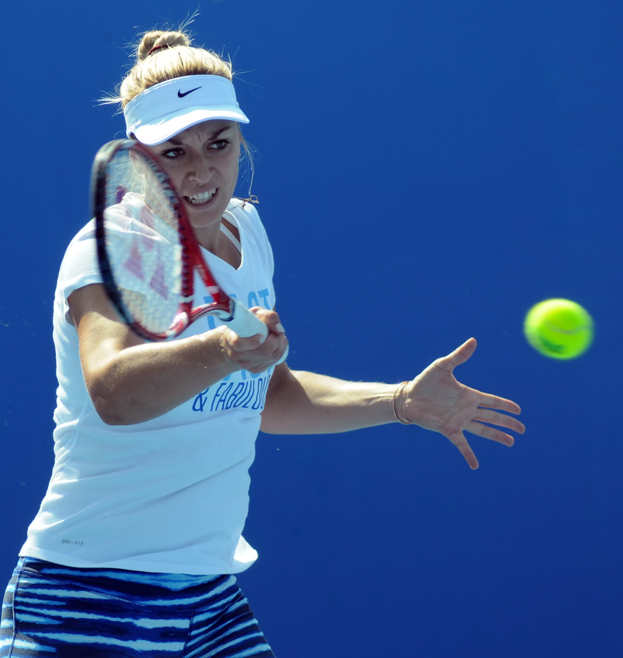 Sabine Lisicki at the 2014 China Open